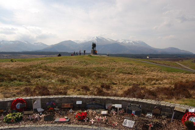 The Commando Memorial from the Garden of Remembrance, near to Highbridge, Highland, Great Britain.